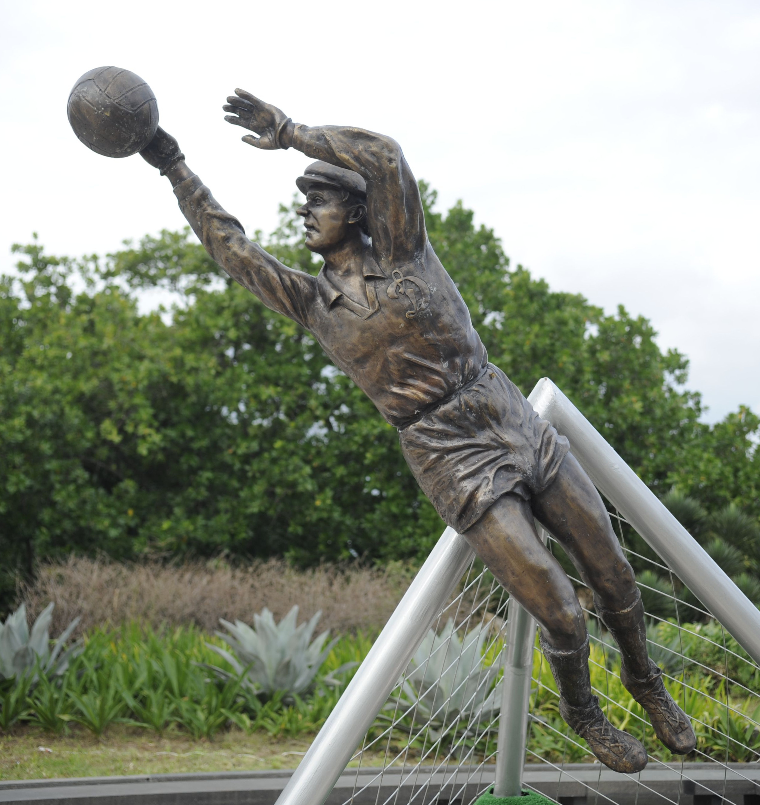 Opening the Russia House in Rio